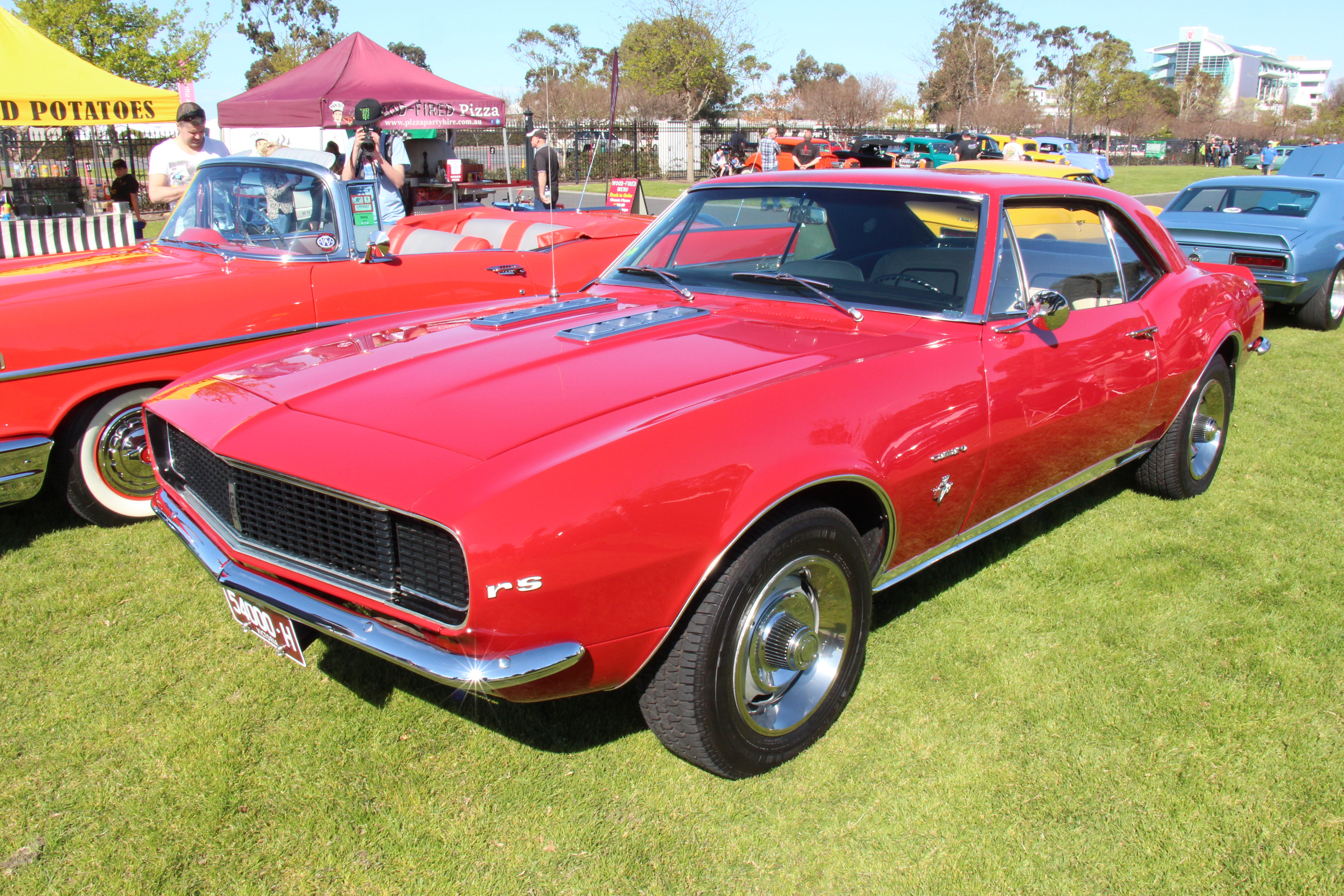 Bolero Red. A F body Pony Car, introduced in Sept 1966, direct competition for the Mustang, a 2 door, 2+2 seat, coupe or convertible, it shared its platform and components with the other GM pony car, the Firebird. Available in base, RS appearance package with hidden headlights and revised taillights, also the SS performance package 350 or 396 V8, better suspension and non-functional air inlets on the hood. finally the race ready Z28 performance package, with solid lifter 302 V8, 4 speed and disc brakes, it was designed to compete in the SCCA Trans Am Series, only 602 were made for 67